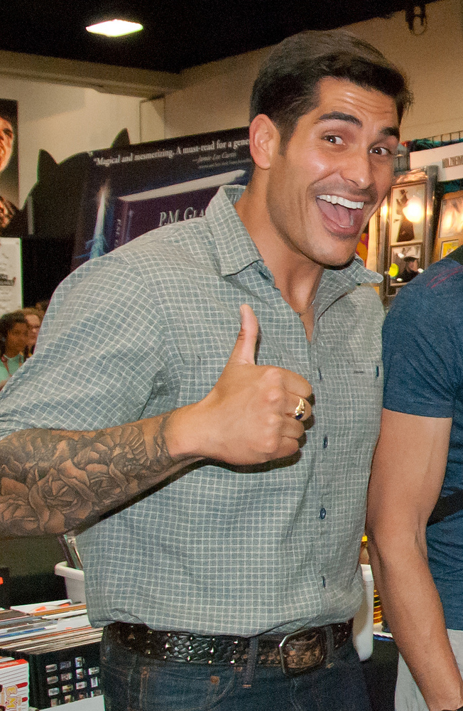 The KROQ Crew